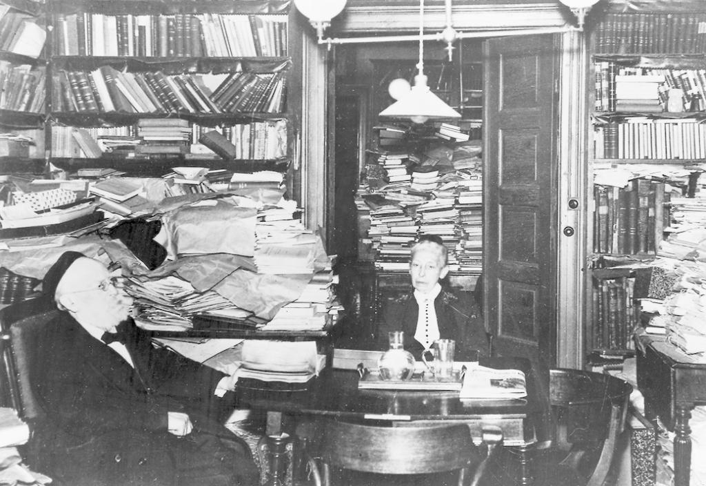 David Jacob Simonsen (1853-1932), Danish rabbi and book collector with his wife Cora in their Skindergade 28 flat.